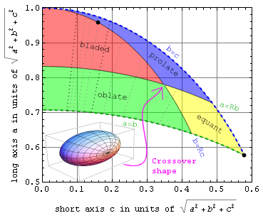 Zingg shape classification map (R=3/2) for any solid object's convex envelope, in terms of long (a), intermediate (b) and short (c) envelope axes. Perfectly equidimensional spheres plot in the lower right corner. Objects with equal short and intermediate axes lie on the upper bound, while objects with equal long and intermediate axes lie on the lower bound. The dotted gray and black lines correspond to integer a/c values ranging from 2 up to 10. The convex envelope for some humans might plot near the black dot in the upper left. Where does your convex envelope plot?